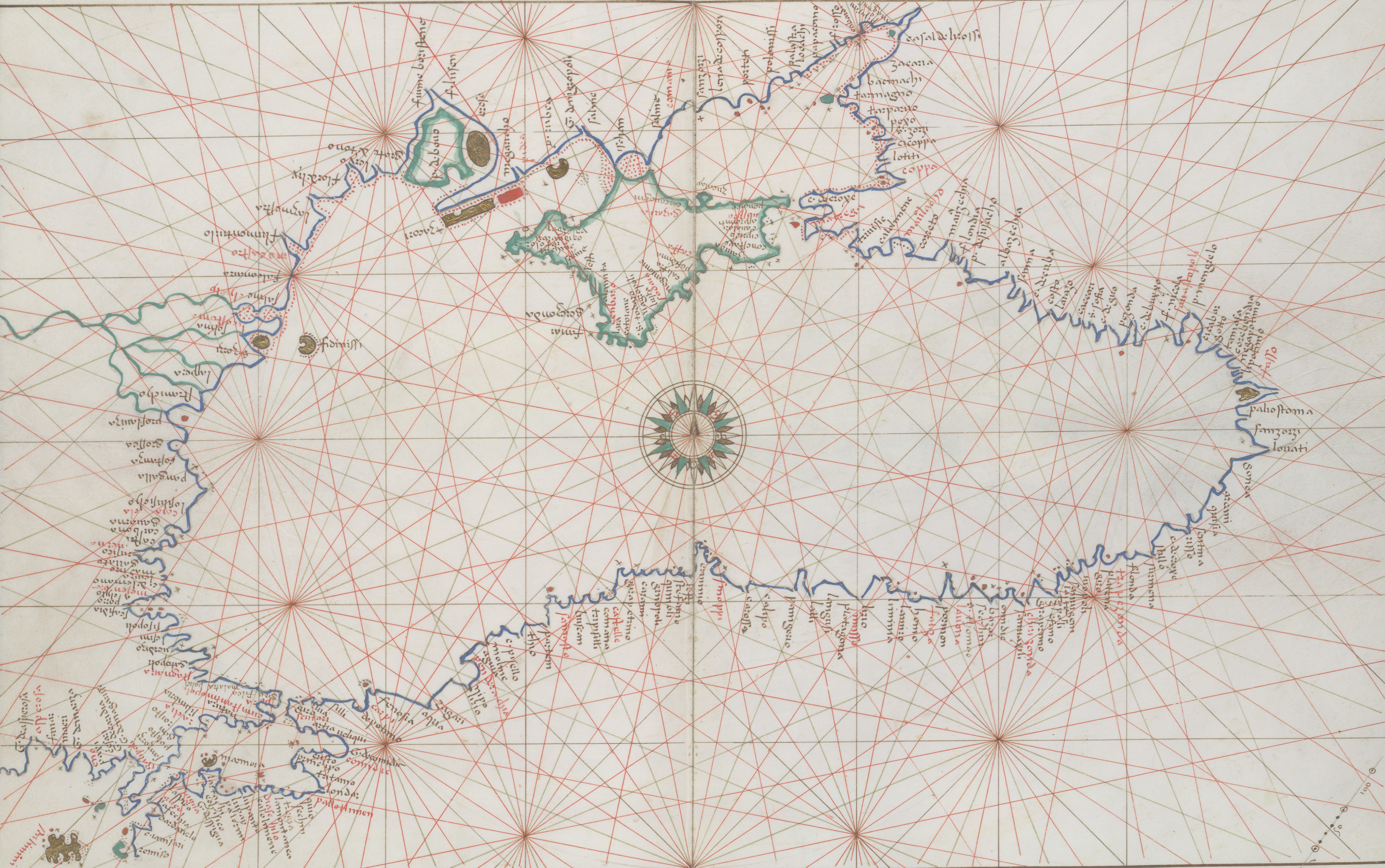 Black Sea. HM 27. BATTISTA AGNESE, PORTOLAN ATLAS Italy, Venice, 1553 Call Number: HM 27 Folio: ff. 11v-12 Description: Black Sea.